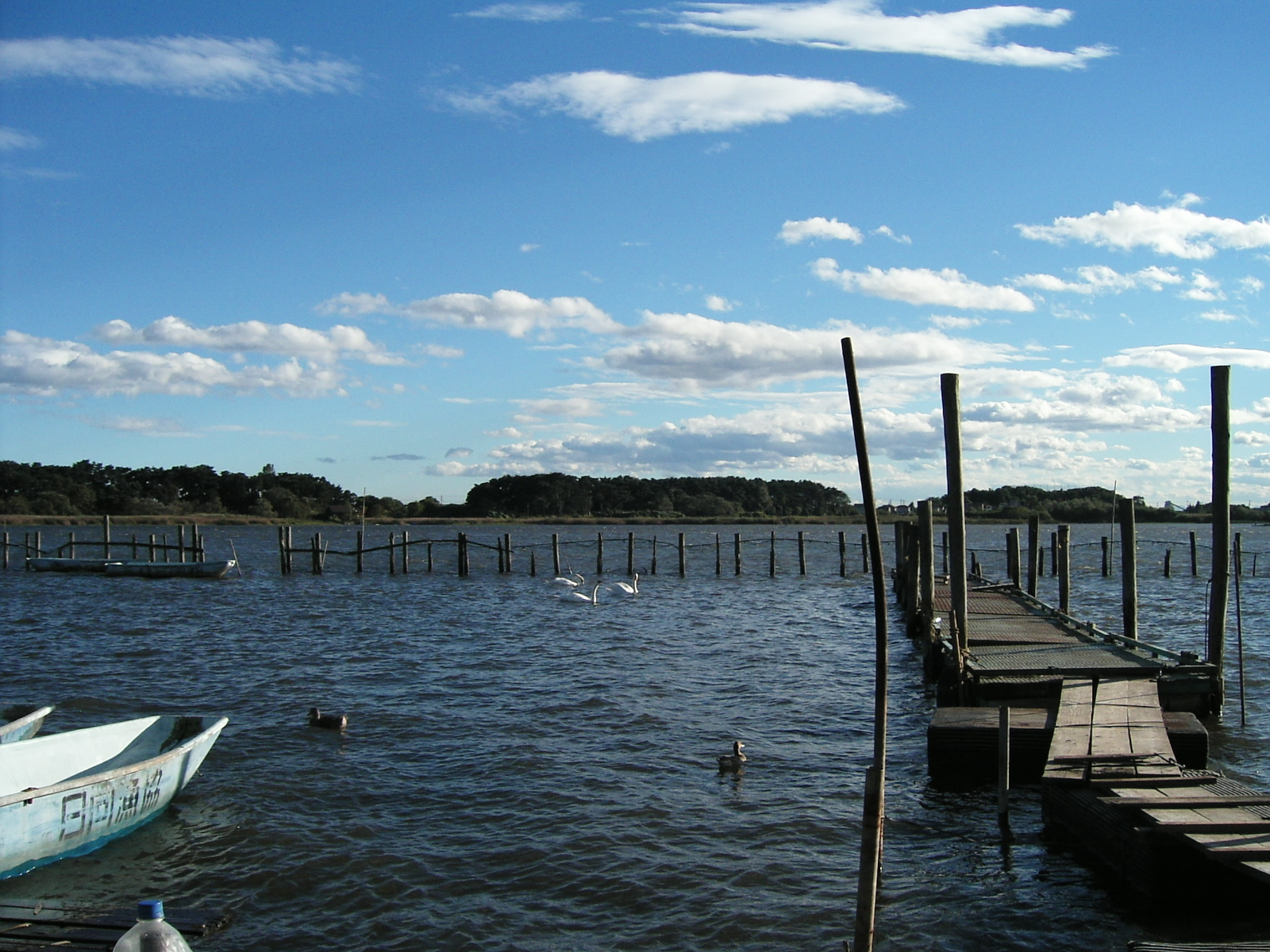 I took this picture in TataraNuma swamp in Tatebayashi city,Gunma pref. in Japan